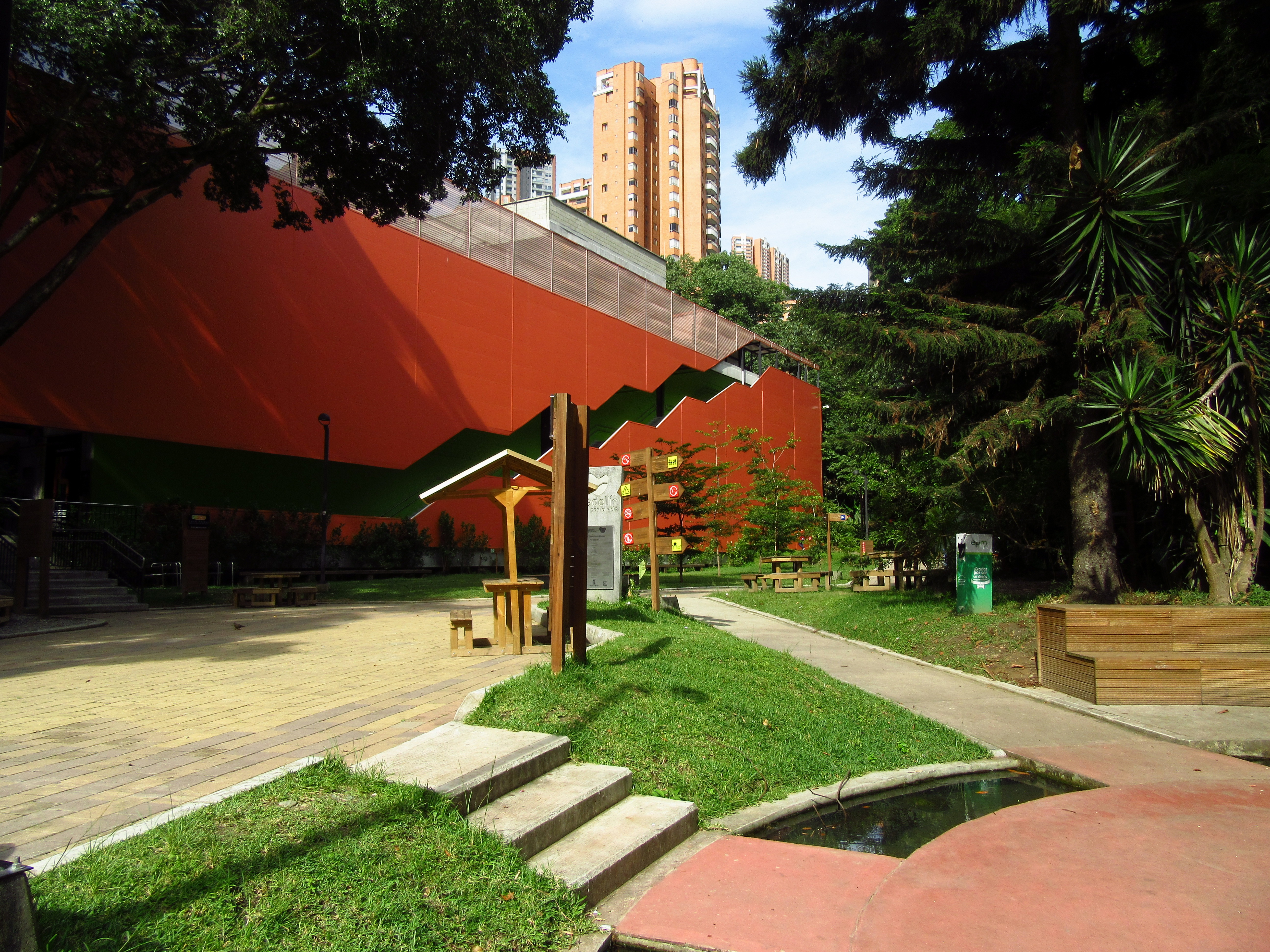 Medellín